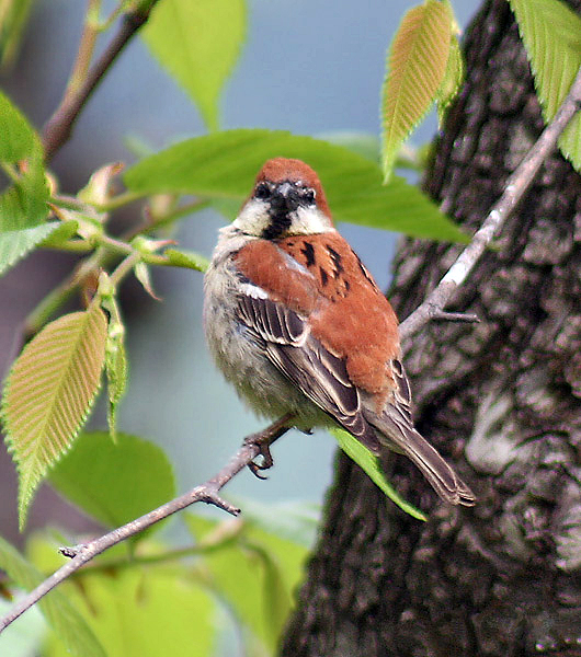 Russet Sparrow (Passer rutilans) in Kullu District of Himachal Pradesh, India.